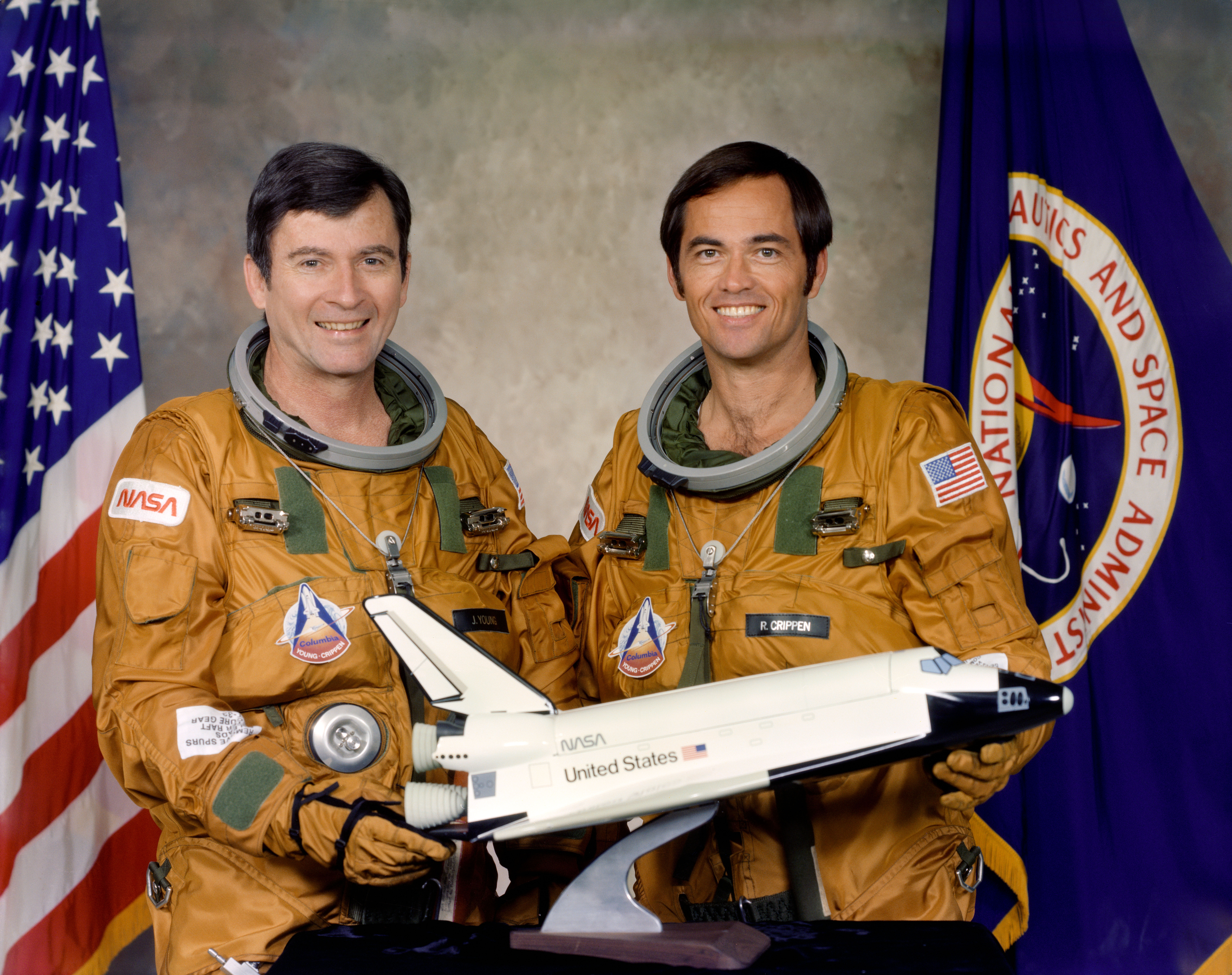 The STS-1 crew members are: Commander, John W. Young and Pilot Robert L. Crippen.